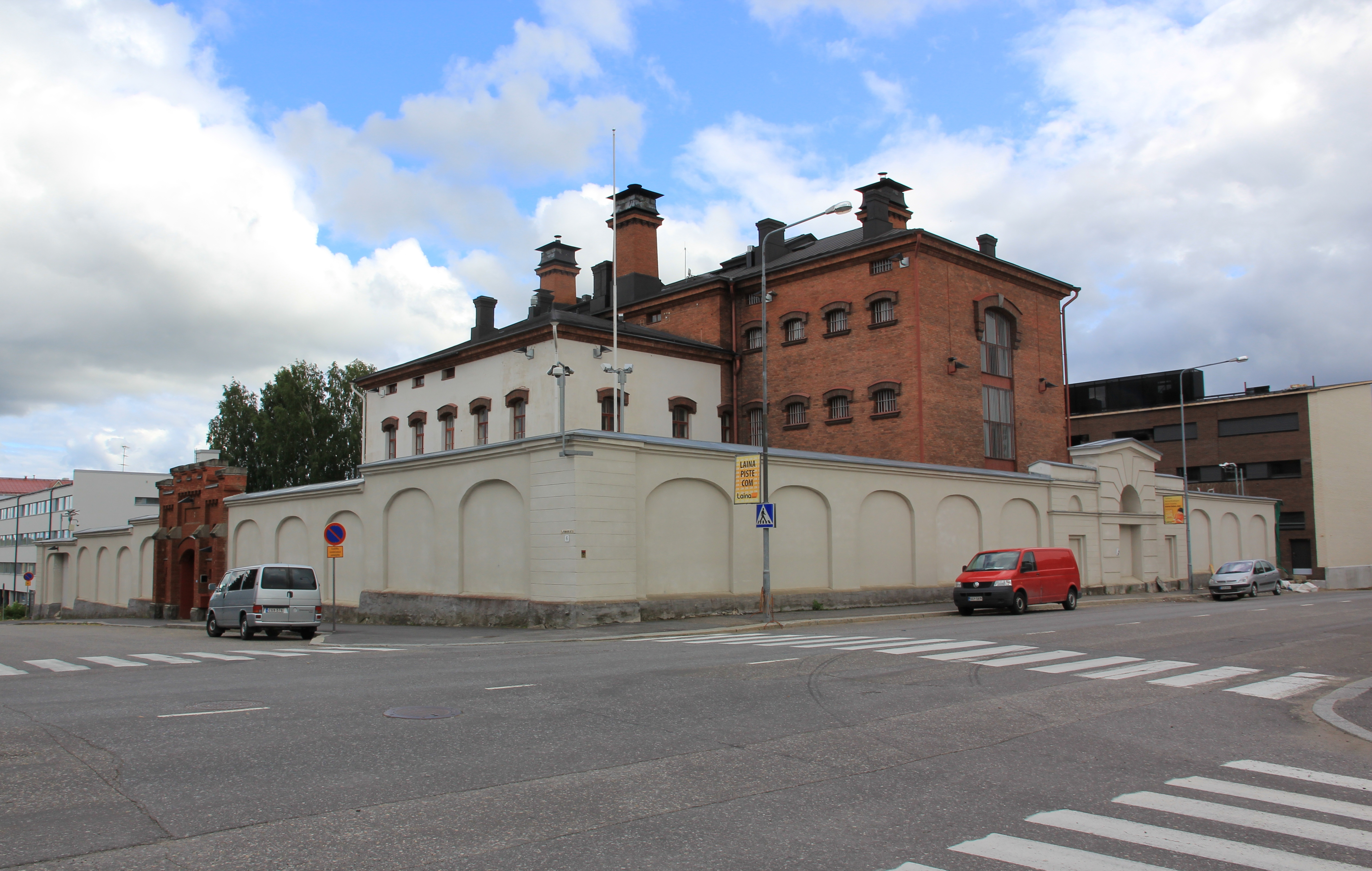 Mikkeli prison.